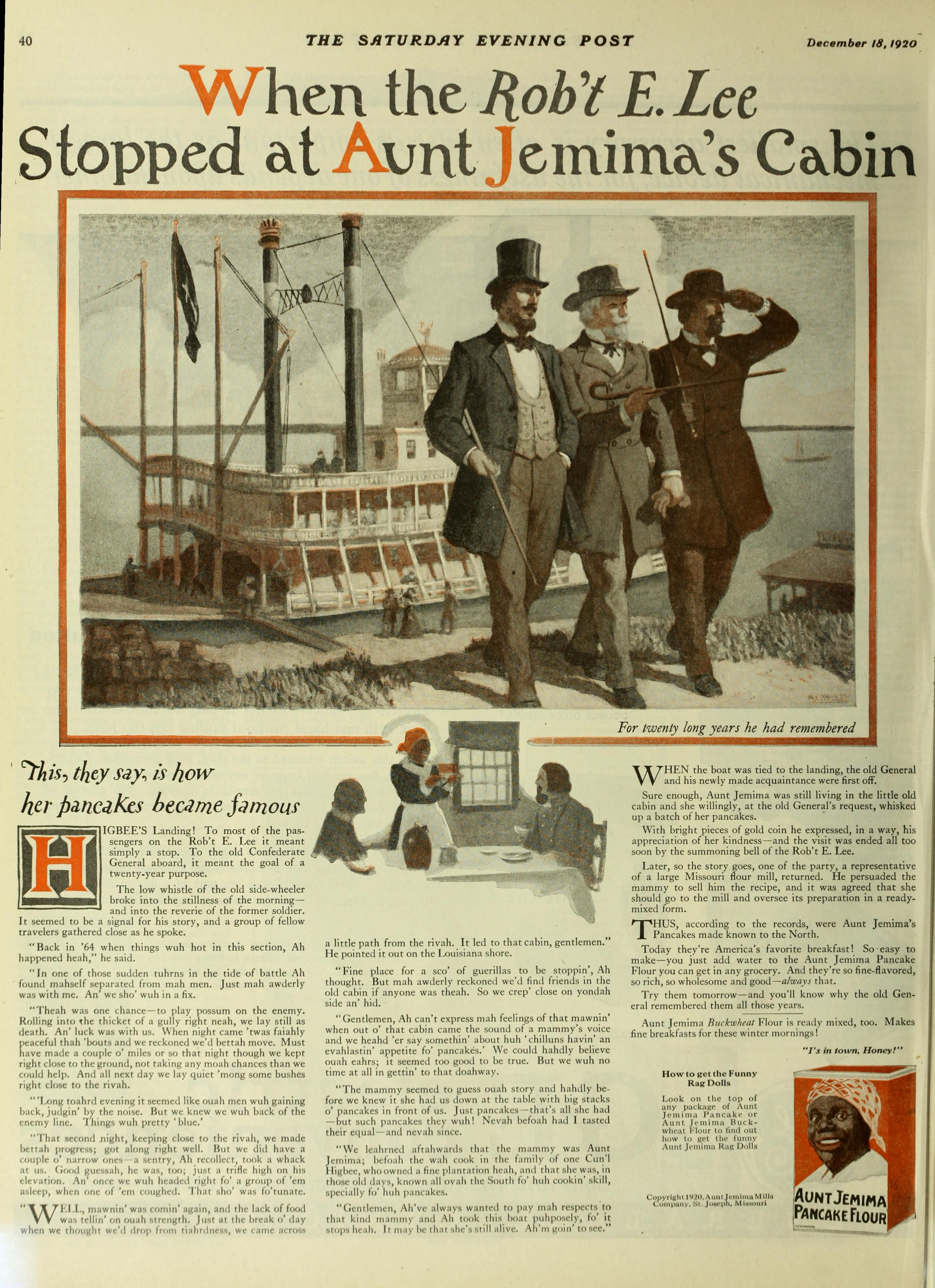 Title: The Saturday evening post Year: 1839 (1830s) Authors: Subjects: Publisher: Philadelphia : G. Graham Text Appearing Before Image: electricconveniences Sold and installed by electrical contractor—dealers J 41-98A GENERAL ELECTRIC COMPANY 40 THE SATURDAY EVENING POST December 18,1920 When the hoM E. LaStopped at Aunt Jemimas Cabin Text Appearing After Image: Z5, they say-, is howher pancakes became famous